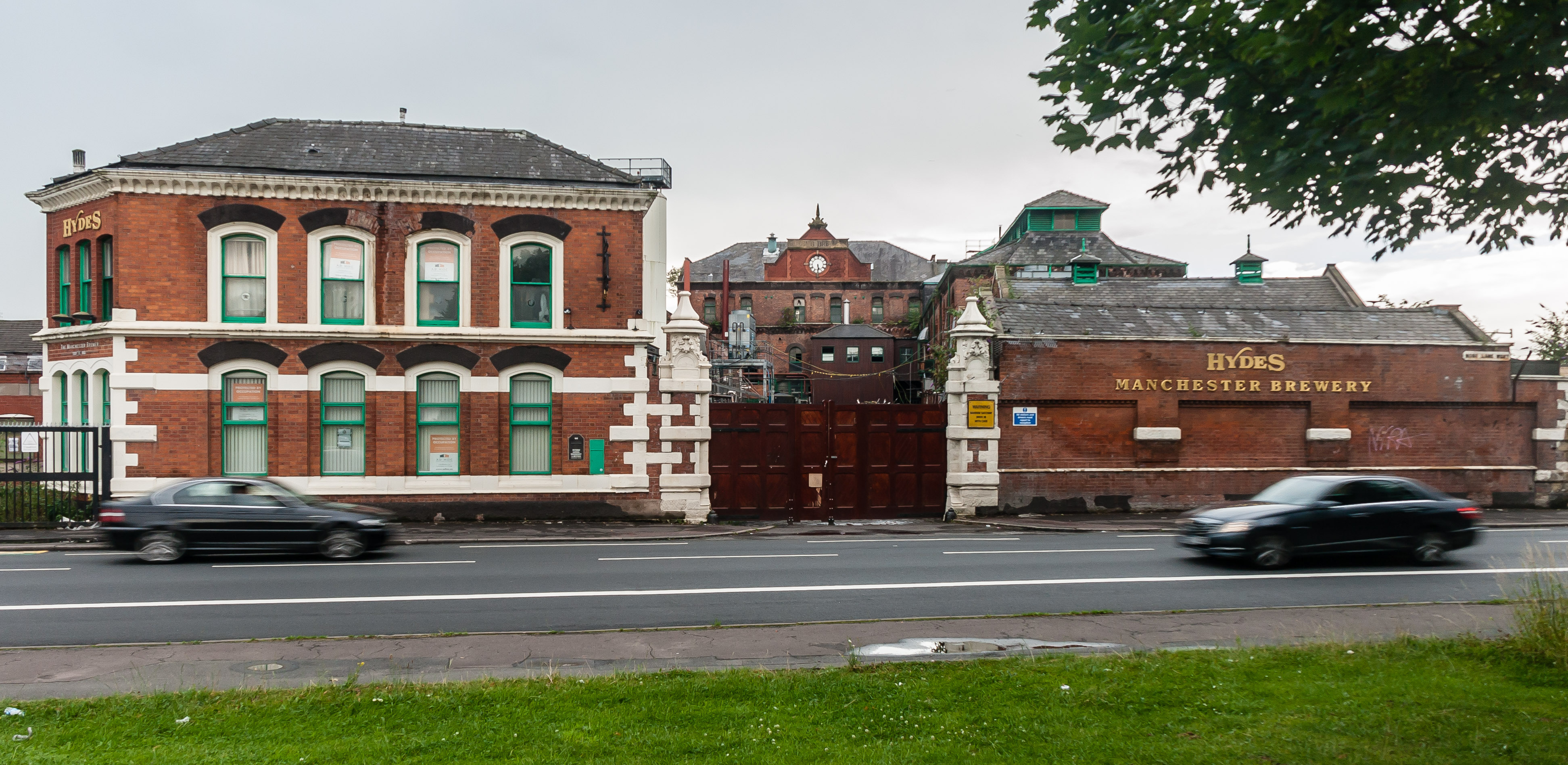 Photograph of Hyde's Brewery, Manchester, England